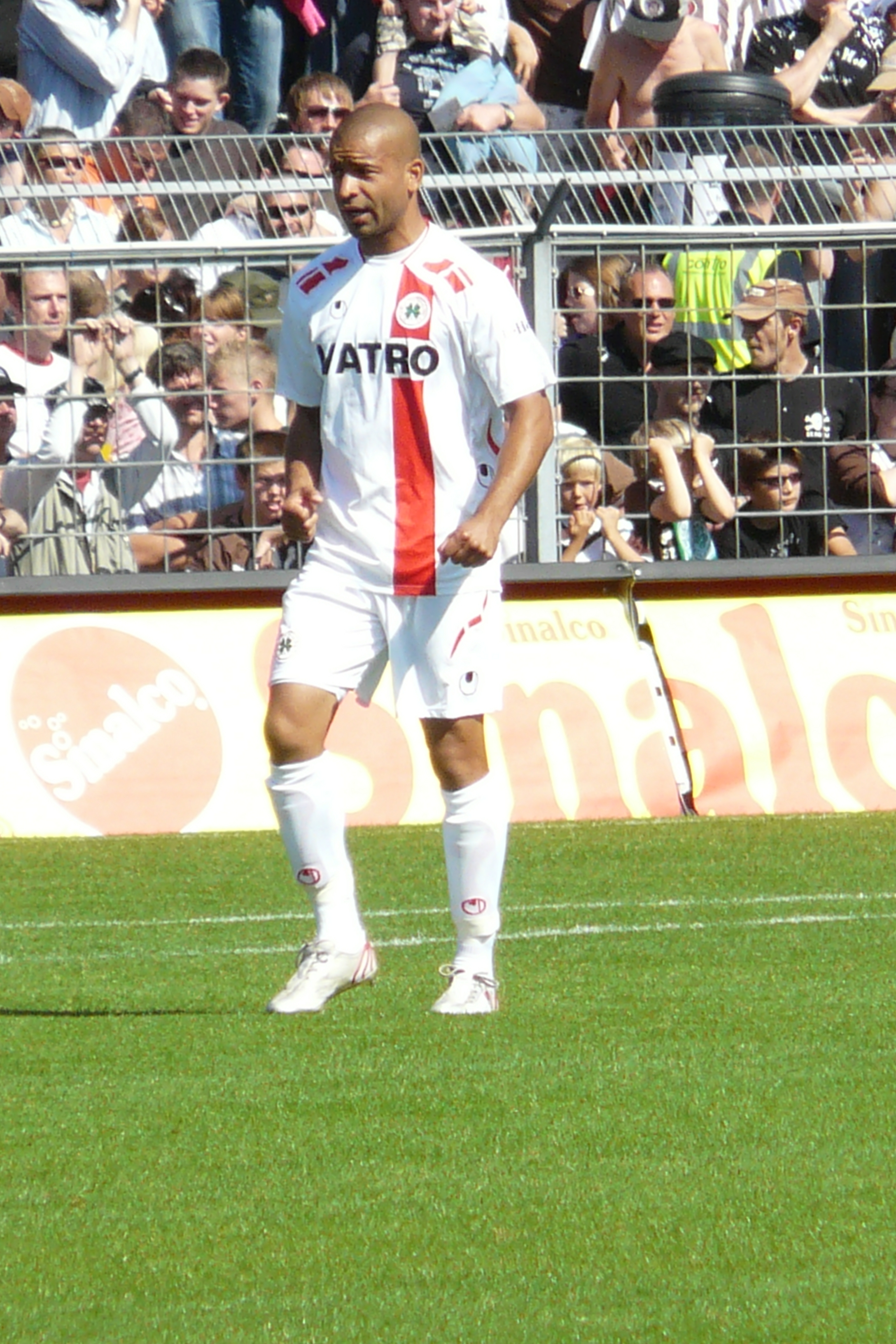 Timo-Jan Uster as Player from Rot-Weiß Oberhausen